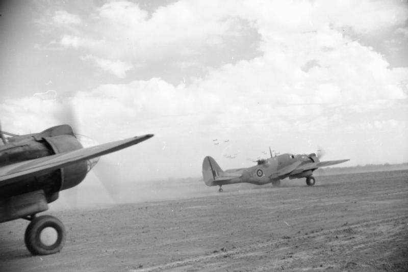 Royal Air Force Operations in the Middle East and North Africa, 1939-1943. Operation PUGILIST. Martin Baltimore Mark IIIAs of No. 232 Wing RAF taxy to the take-off point at Ben Gardane North, Tunisia, to bomb the Mareth Line.